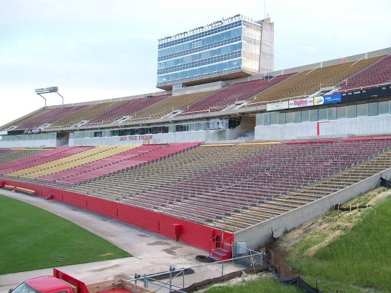 Jack Trice Stadium after Phase I construction